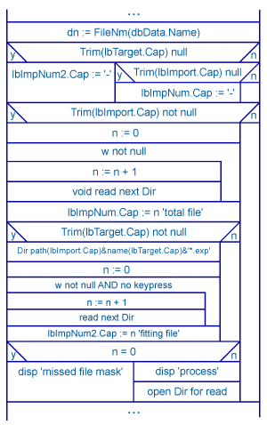 A very short example of structured program planning, with box diagram.